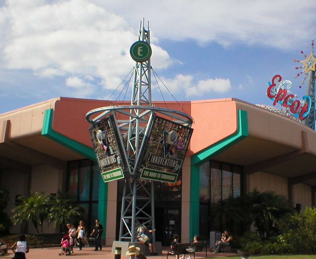 Entrance to Innoventions pavilion in Walt Disney World Resort's Epcot Center Epcot Center, Walt Disney World Resort